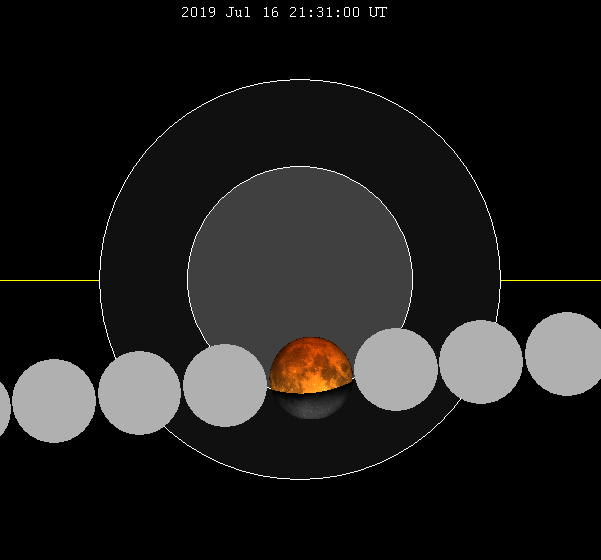 July 2019 lunar eclipse chart of moon's path through the earth's shadow. thumb